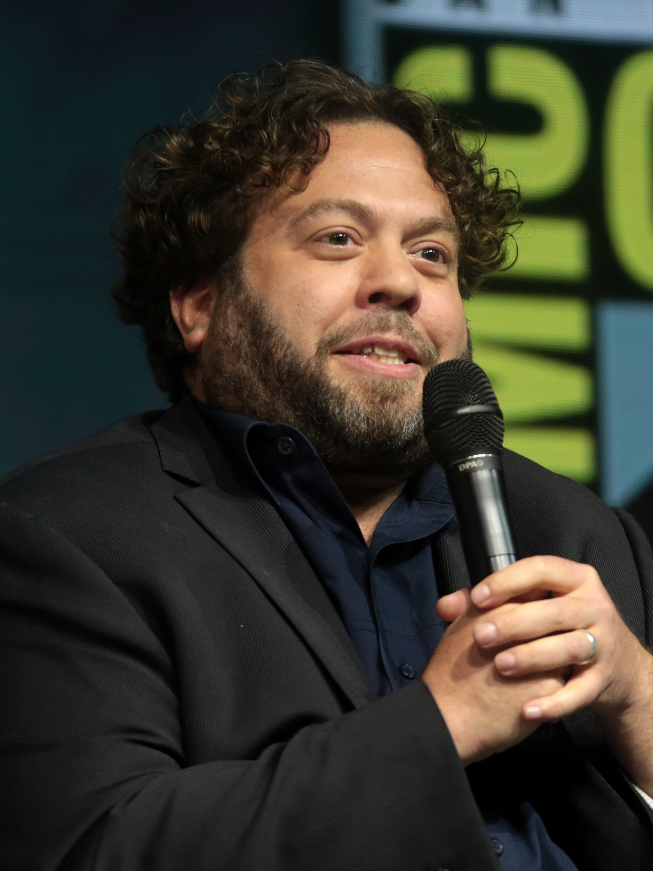 Dan Fogler speaking at the 2018 San Diego Comic Con International, for "Fantastic Beasts: The Crimes of Grindelwald", at the San Diego Convention Center in San Diego, California.